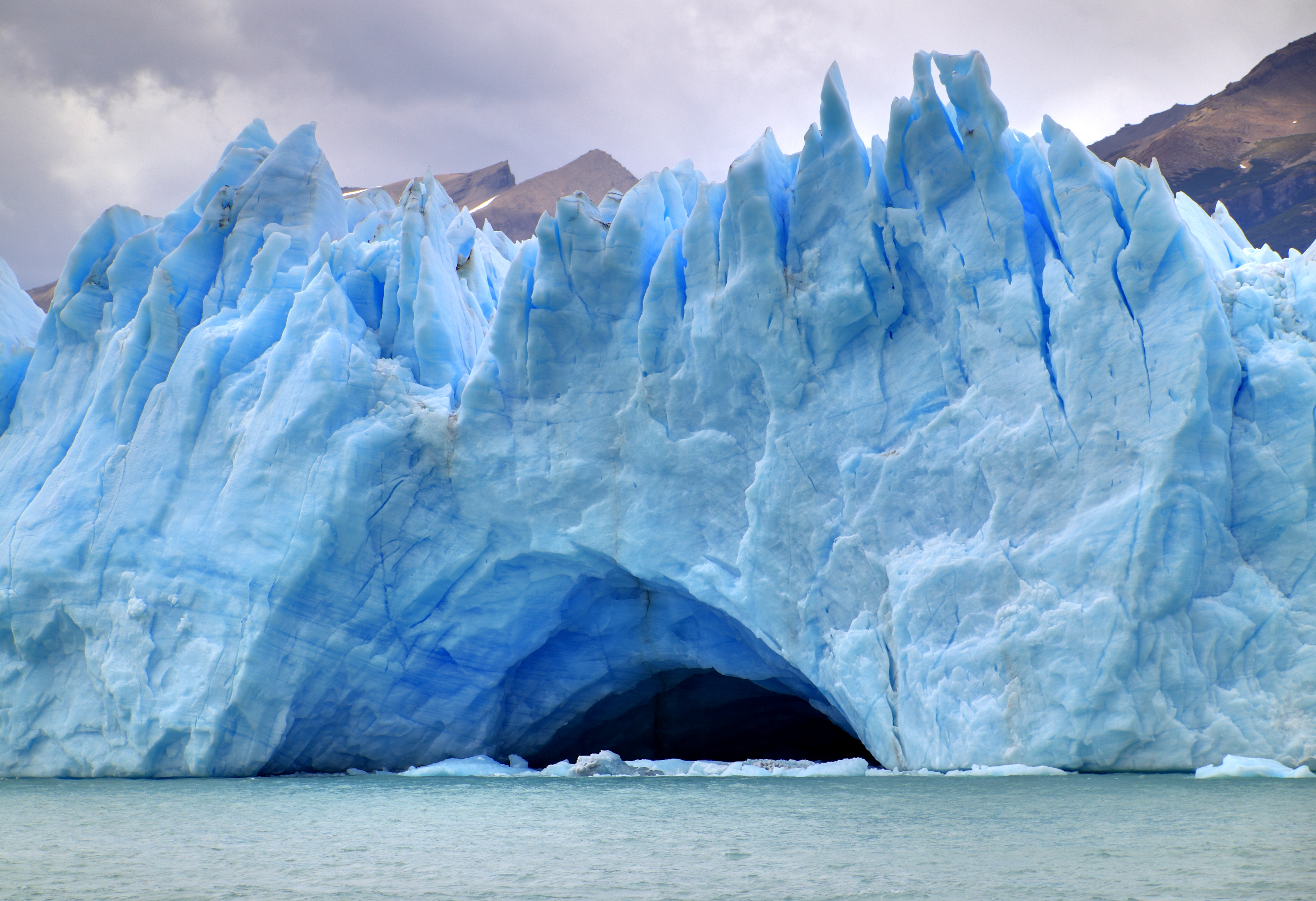 Please, have this description accessible to all by translating it in different languages.